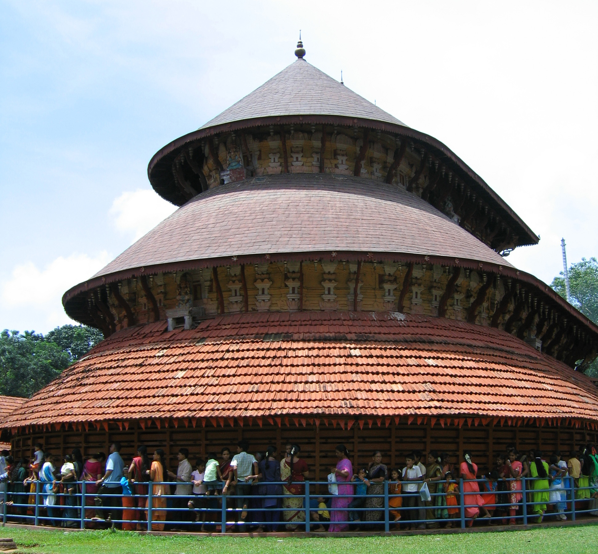 Madhur Ananteshwara Vinayaka Temple, near Kasaragod, North Kerala